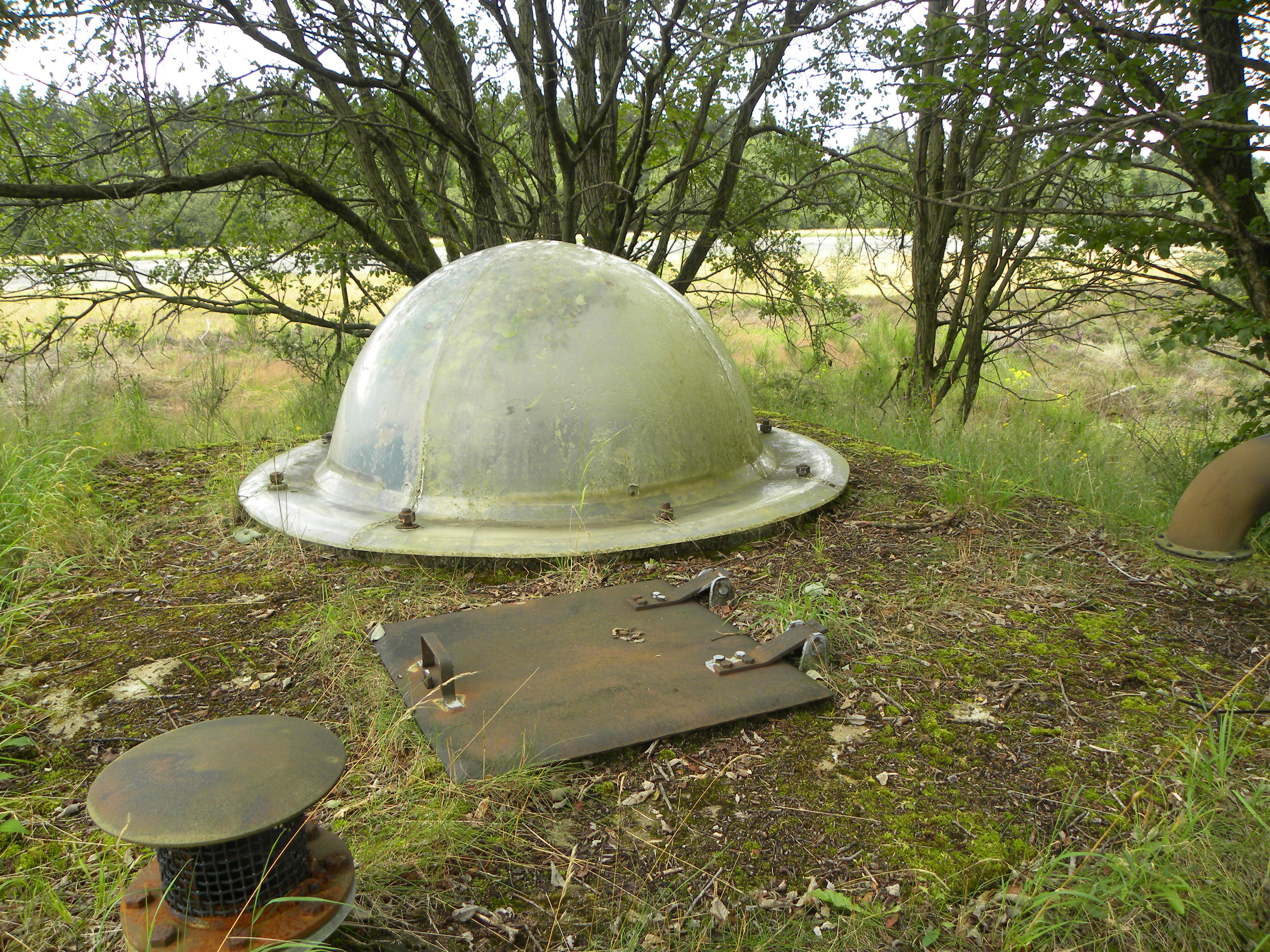 Bunker with observation dome runway, Saint-Hubert Air Base, Belgium